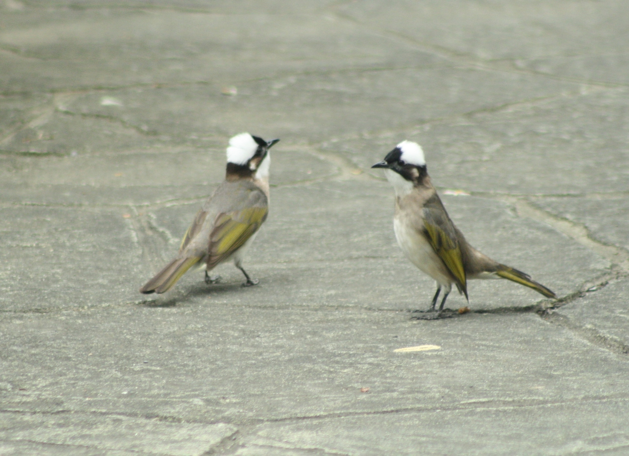 Light-vented Bulbul (Picnonotus sinensis formosae) Taipei Taiwan